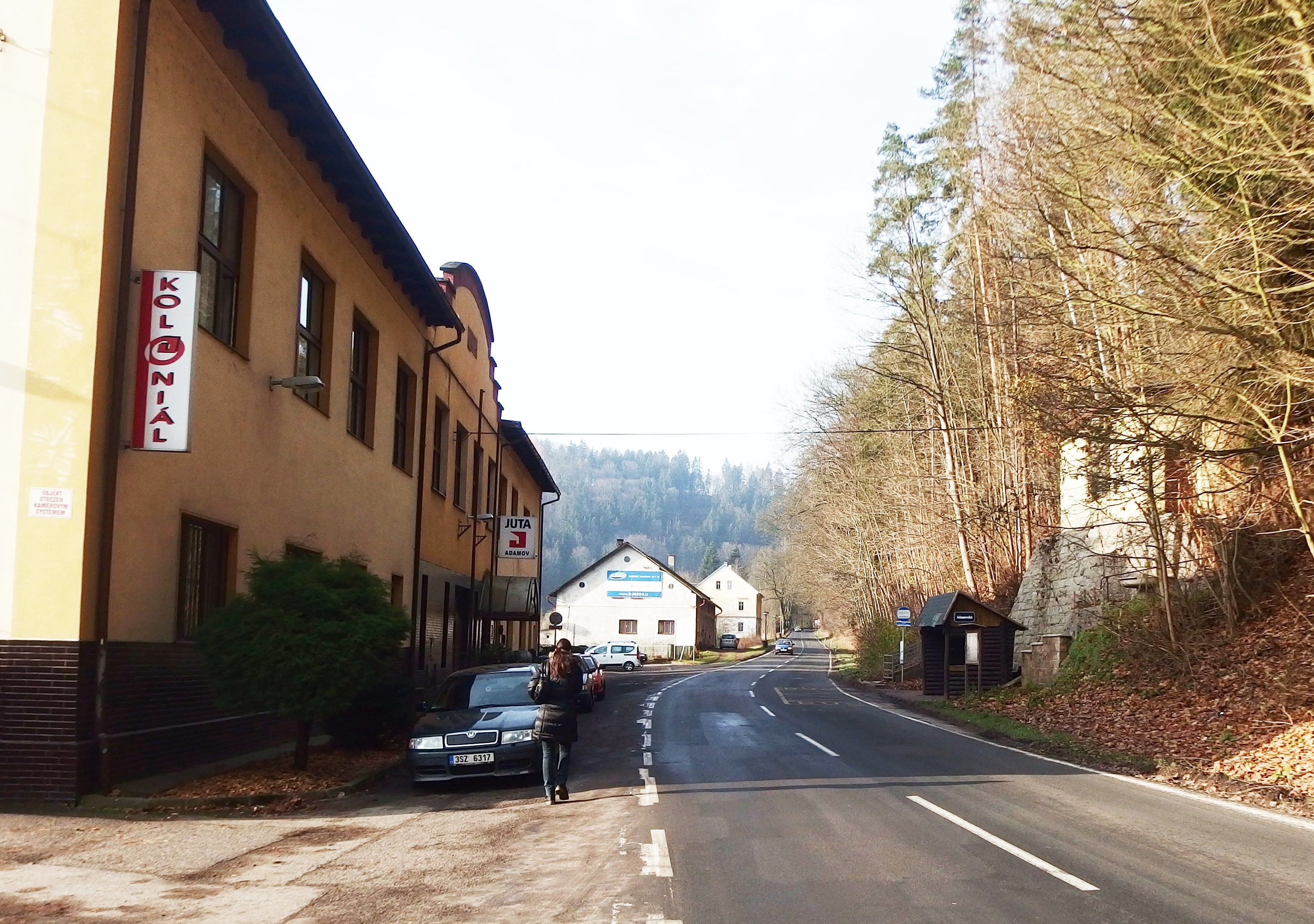 Trutnov, Czech Republic, part Adamov.